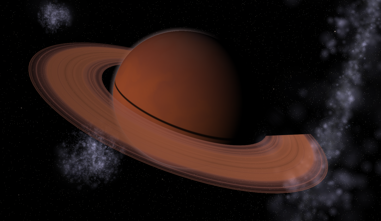 a possible view of Gliese 876/c